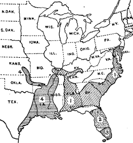 Distribution map of Oryzomys palustris, as the species was understood in 1918.